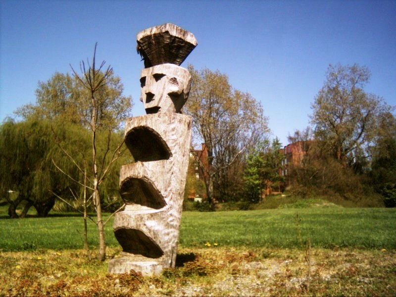 A rewe, holy symbol of Mapuche people, settled in Isla Teja, Chile